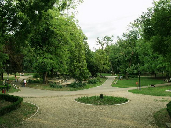 Petőfi Park - Oradea